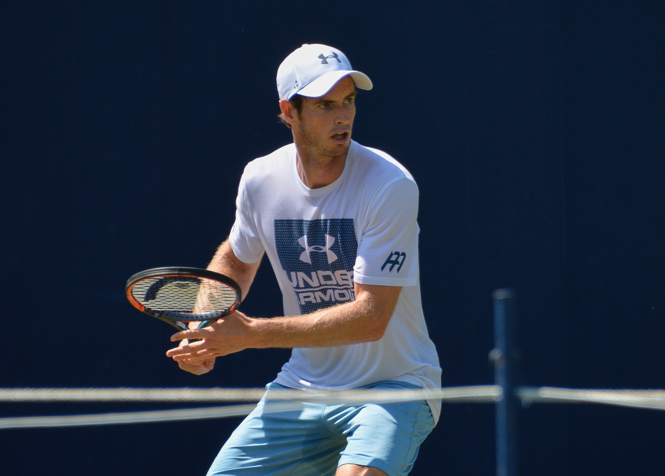 On the practice court. Aegon Championships 2017.